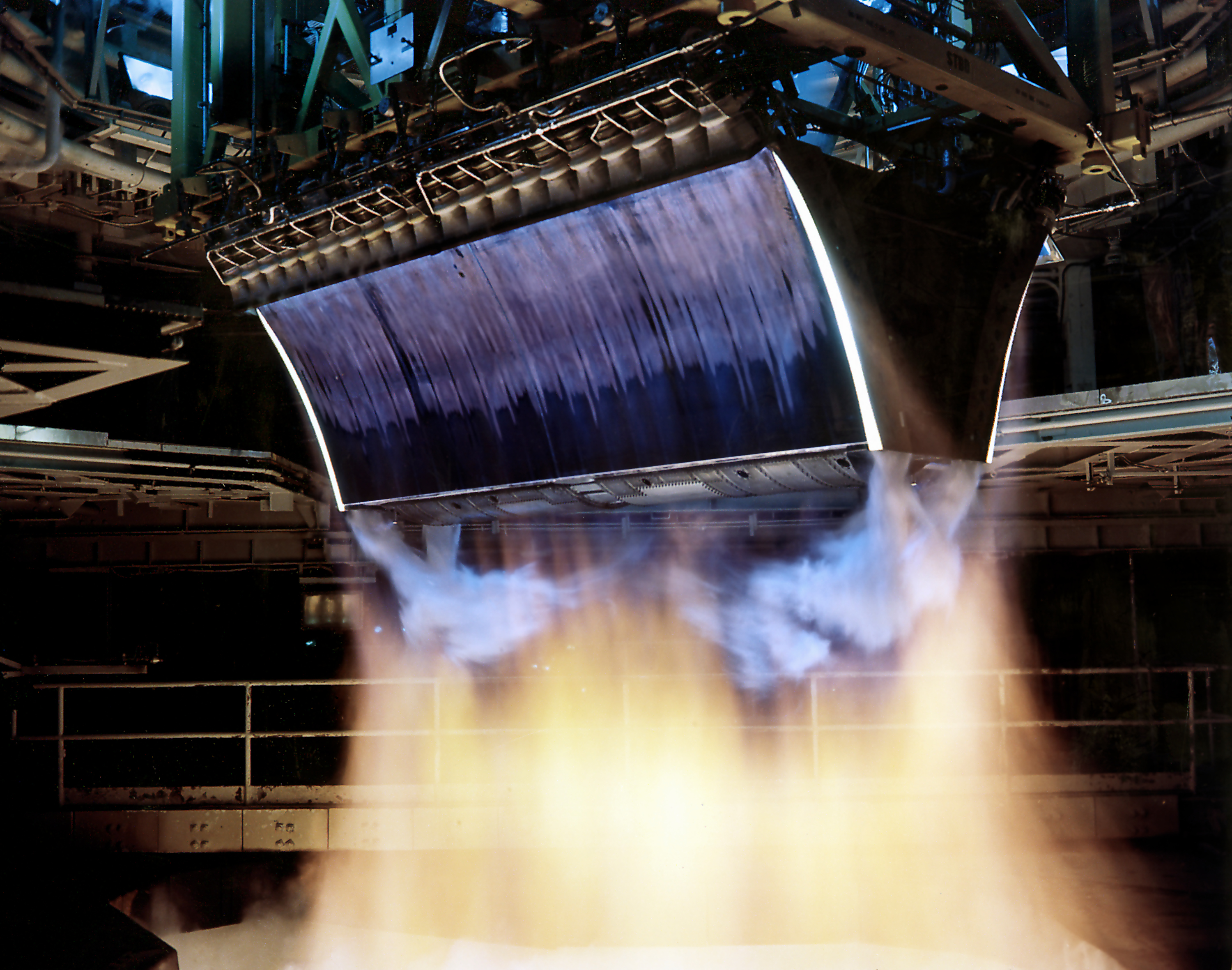 The test of twin Linear Aerospike XRS-2200 engines, originally built for the X-33 program, was performed on August 6, 2001 at NASA's Stennis Space Center, Mississippi. The engines were fired for the planned 90 seconds and reached a planned maximum power of 85 percent. NASA's Second Generation Reusable Launch Vehicle Program , also known as the Space Launch Initiative (SLI), is making advances in propulsion technology with this third and final successful engine hot fire, designed to test electro-mechanical actuators. Information learned from this hot fire test series about new electro-mechanical actuator technology, which controls the flow of propellants in rocket engines, could provide key advancements for the propulsion systems for future spacecraft. The Second Generation Reusable Launch Vehicle Program, led by NASA's Marshall Space Flight Center in Huntsville, Alabama, is a technology development program designed to increase safety and reliability while reducing costs for space travel. The X-33 program was cancelled in March 2001.